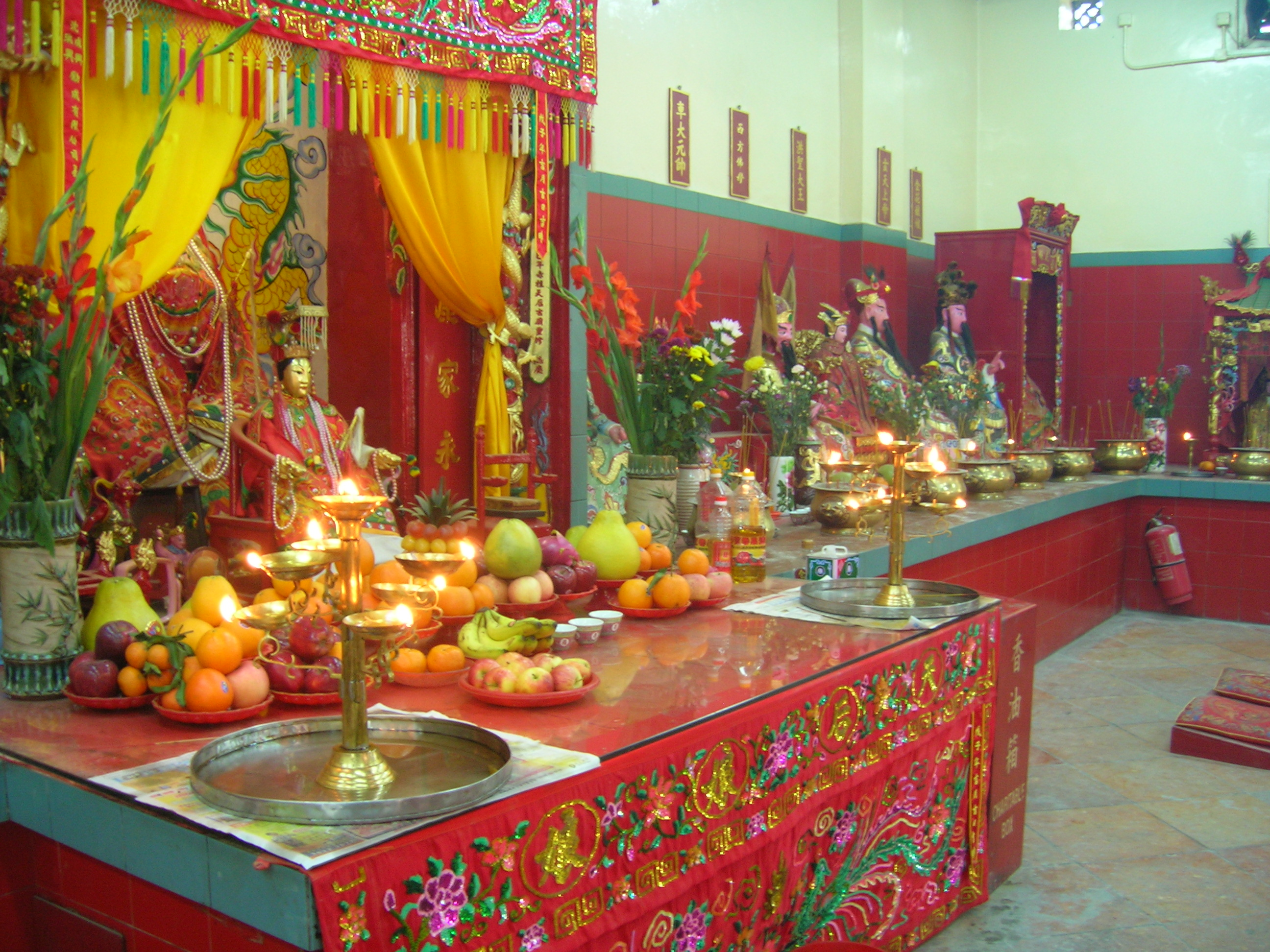 Shrine to Tin Hau at Repulse Bay, near Hong Kong